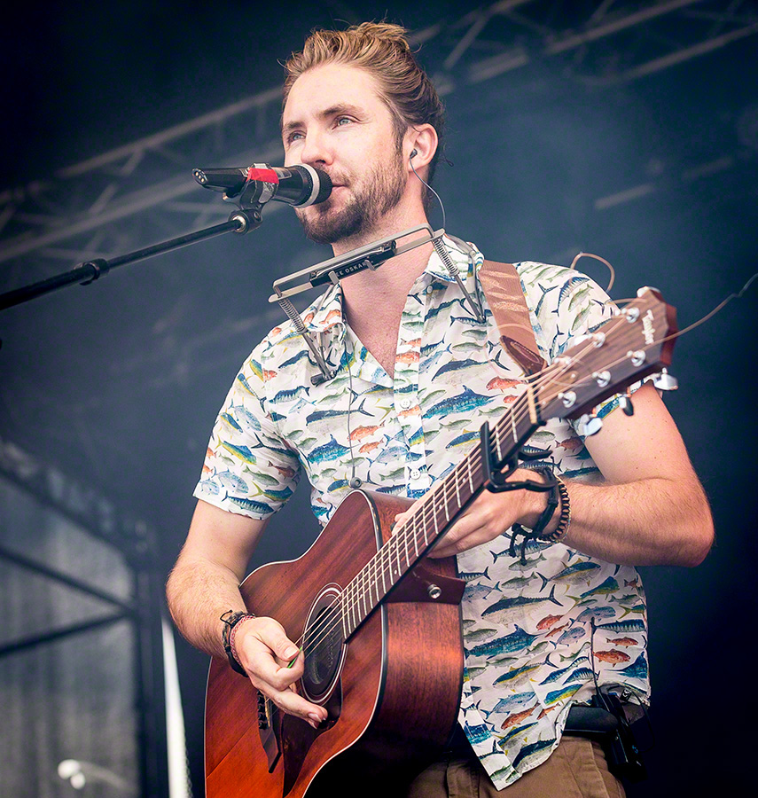 Jeremy Loops at the minor stage during Stavernfestivalen in Stavern on 09. July 2016. Lineup:Jeremy Hewitt (vocal)Unidentified (drums)Unidentified (bass)